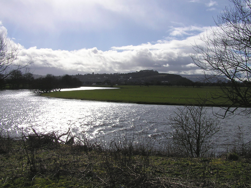 The River Forth meanders through fertile farmlands on the Carse of Stirling near the city of Stirling in Scotland. The glaciated volcanic crag of the town's Castle Hill is visible in the background, topped by Stirling Castle. This photograph taken March 22 en:2004 by Finlay McWalter and licensed under the GNU FDL.